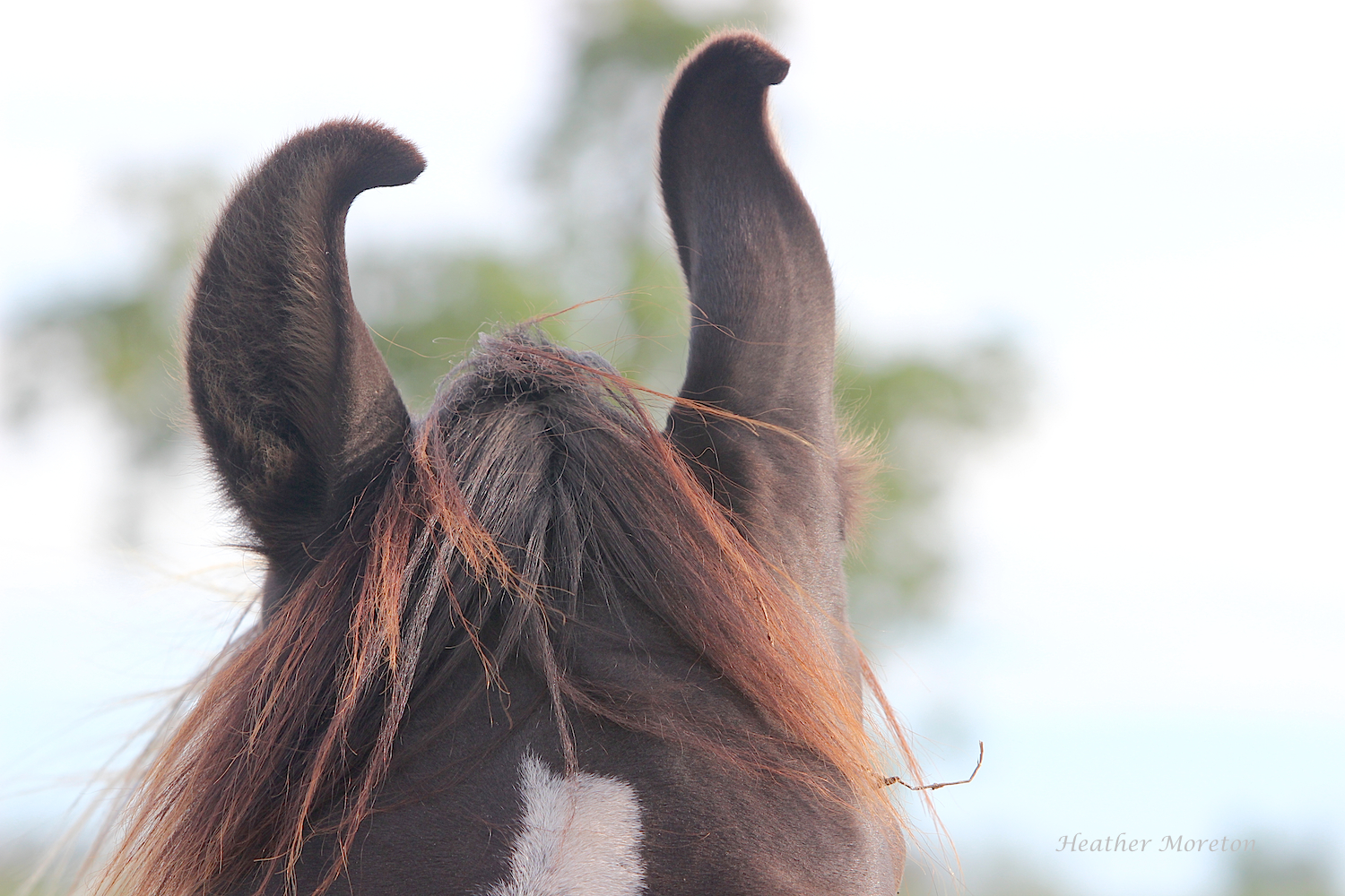 Marwari Filly at the Kentucky Ho